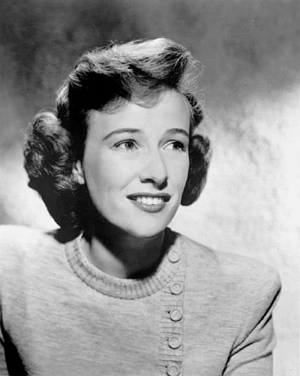 Phyllis Thaxter in press photo from 1955.